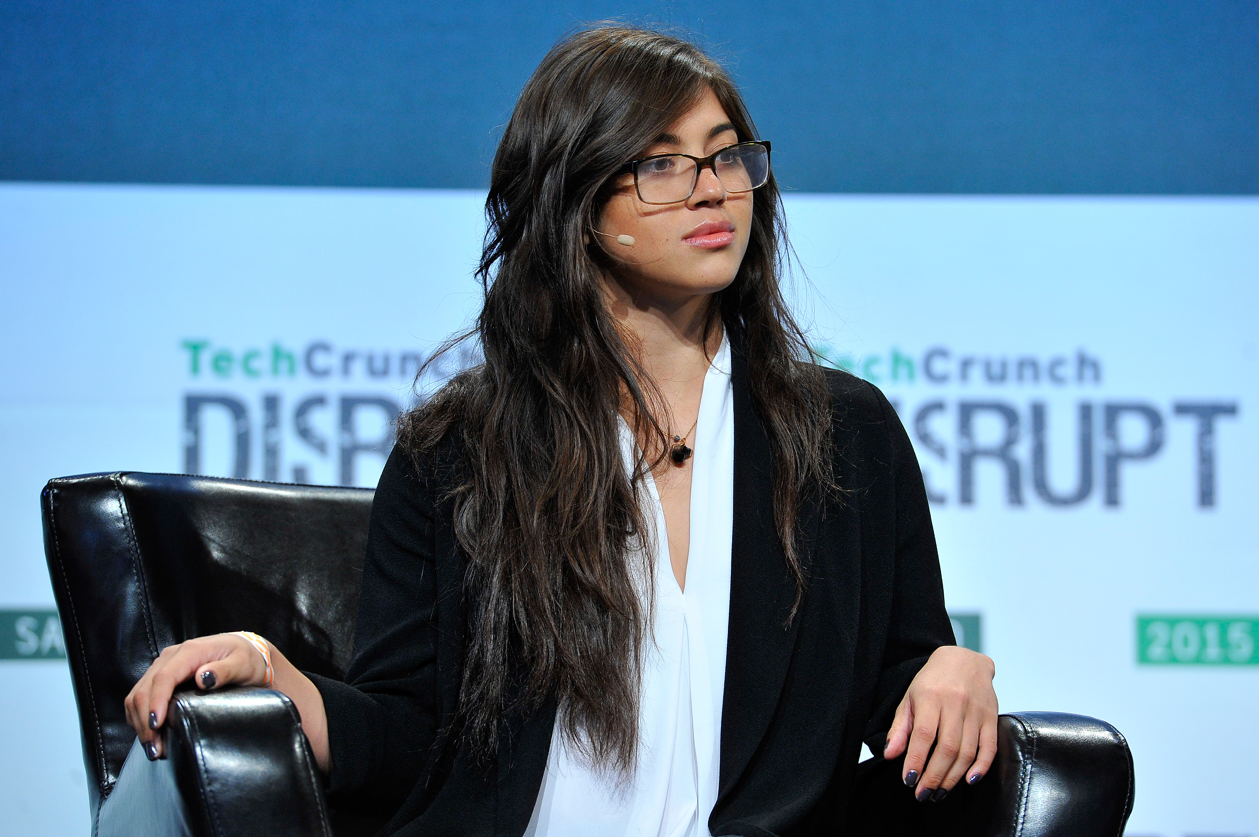 Isis Anchalee of One Login speaks onstage during TechCrunch Disrupt SF 2015 at Pier 70 on September 23, 2015 in San Francisco, California.